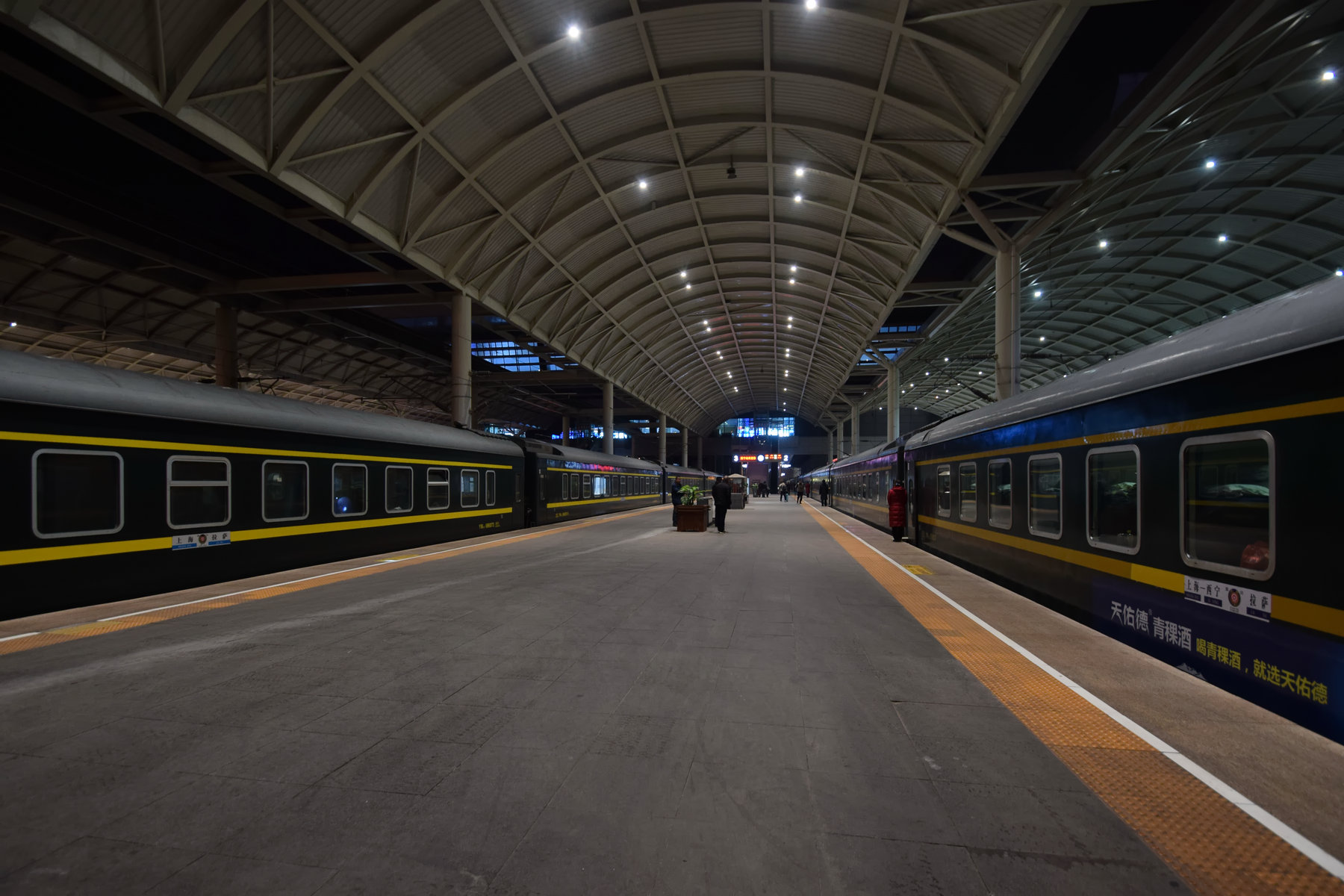 2 Z165 25T trains bound for Lhasa Railway Station were stopping at Xining Railway Station, in order to carry out train changing (from train on the left to right).